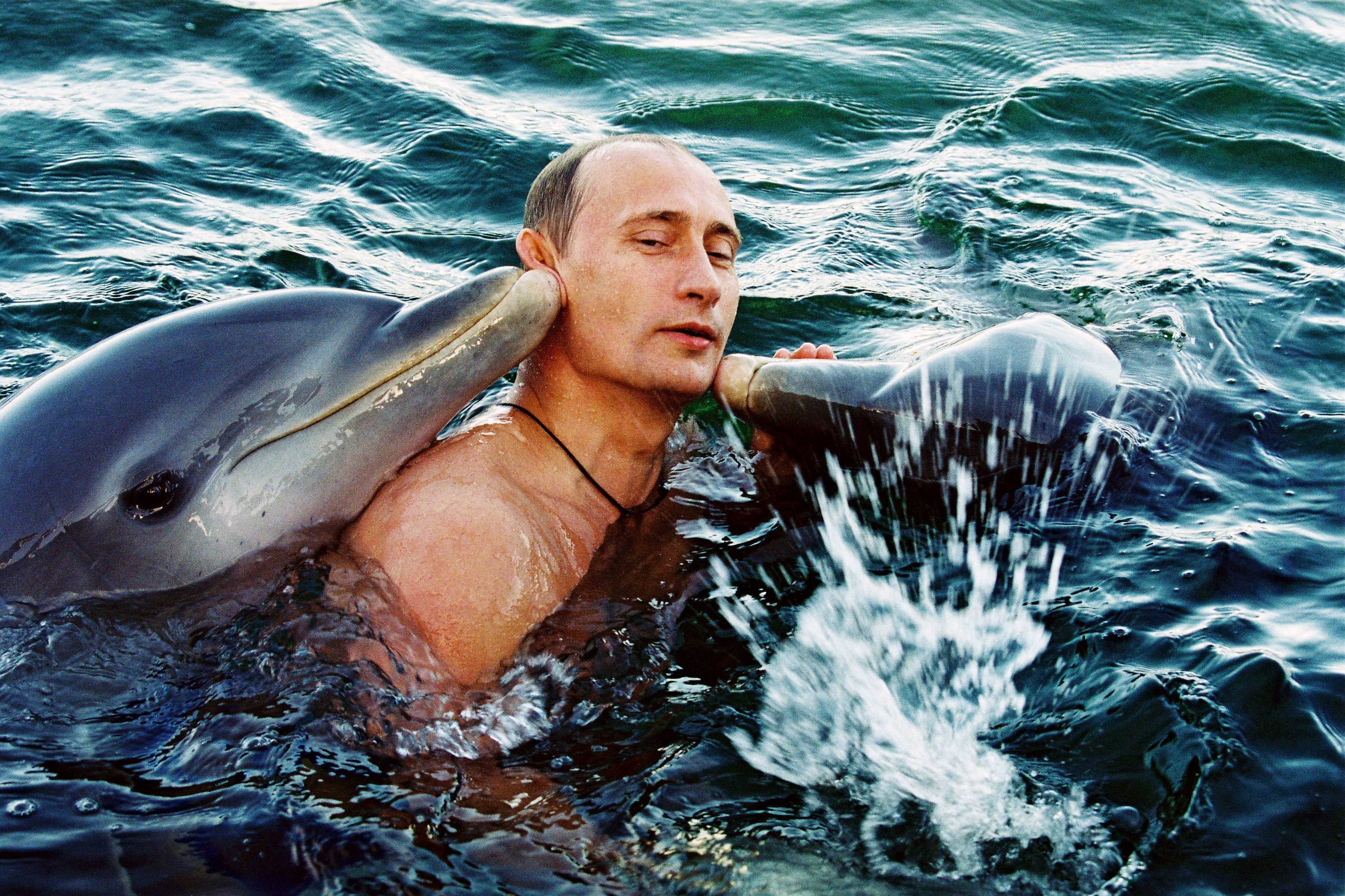 VARADERO, CUBA. President Vladimir Putin relaxing on Cayo Blanco islet.